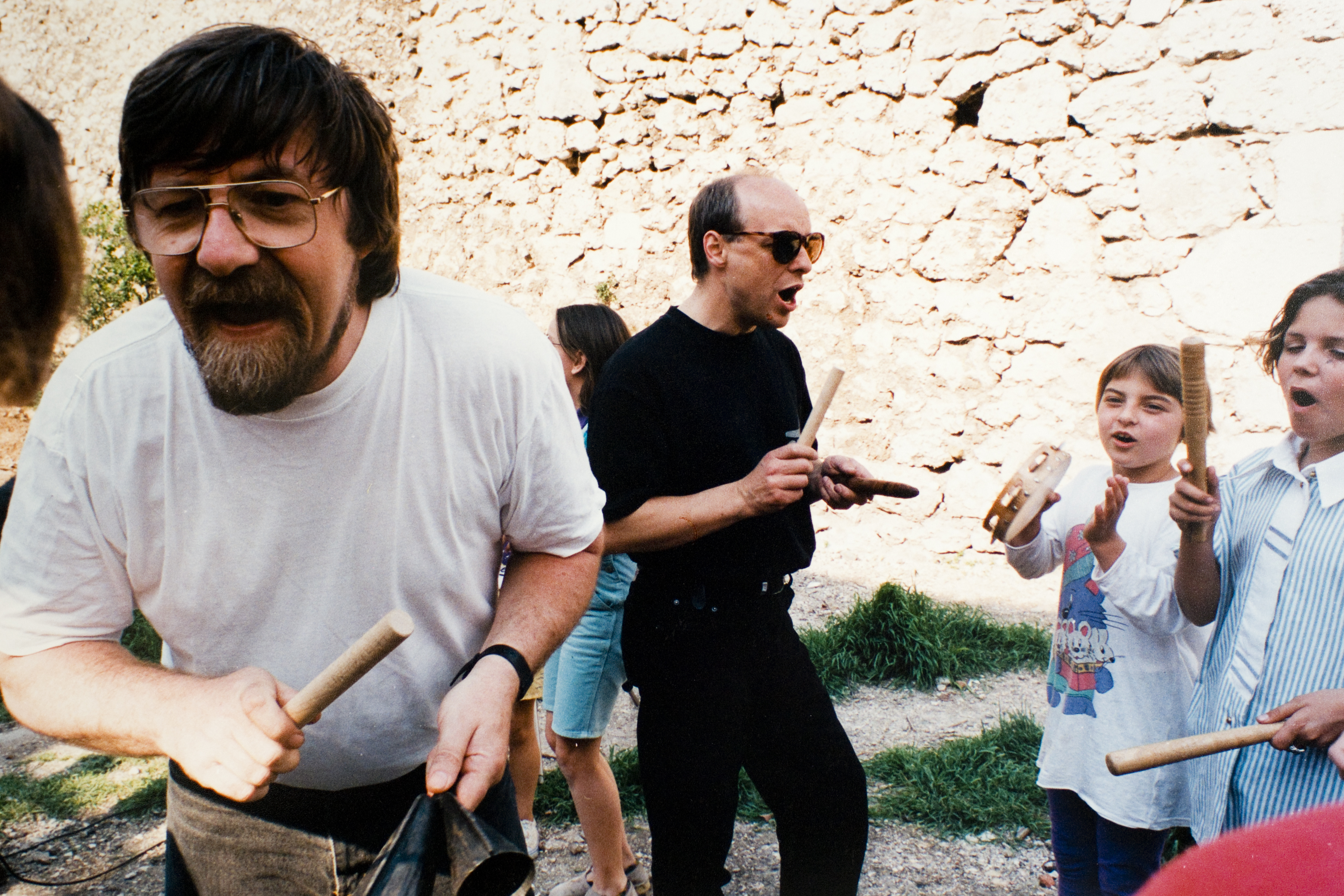 Professor Nigel Osborne and Brian Eno leading music workshops in the Pavarotti centre before building work began. Music therapy projects run by Warchild in Mostar, Bosnia. Warchild projects in Mostar and Sarajevo, in Bosnian Wars, 1994-1995 Warchild activity, Mostar and Sarajevo, Bosnia 1994-95.